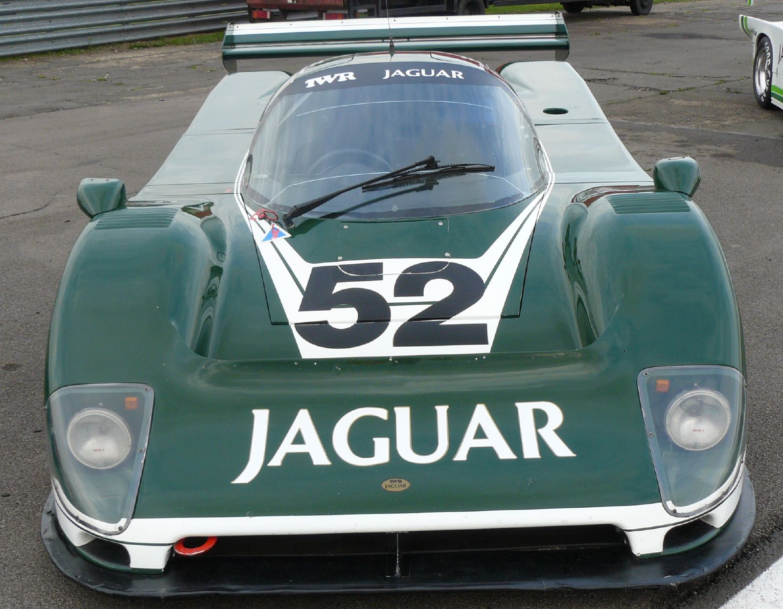 A Jaguar XJR-6 at the Silverstone Classic